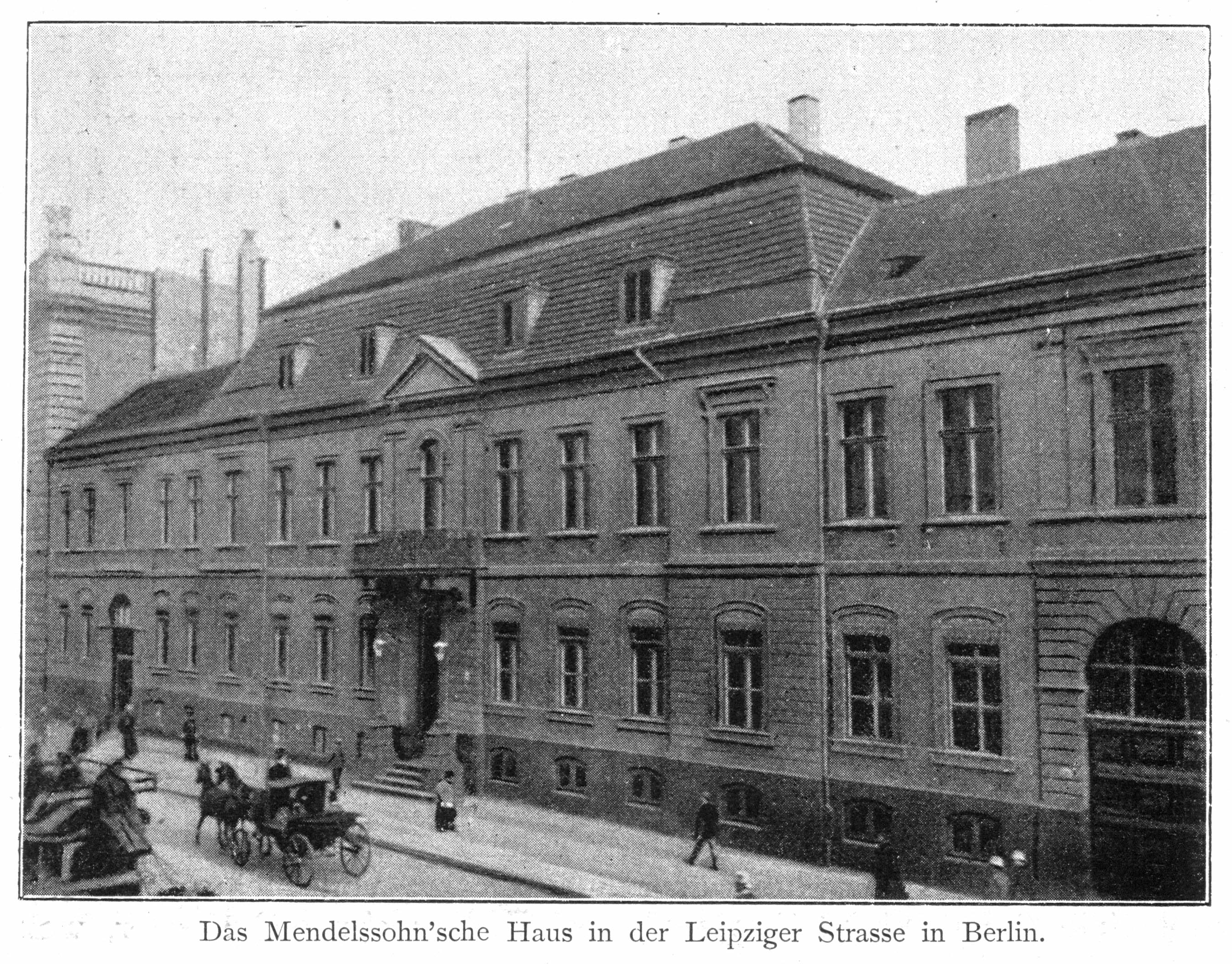 Palais Groeben, Mendelssohn residence in Berlin, Leipziger Strasse